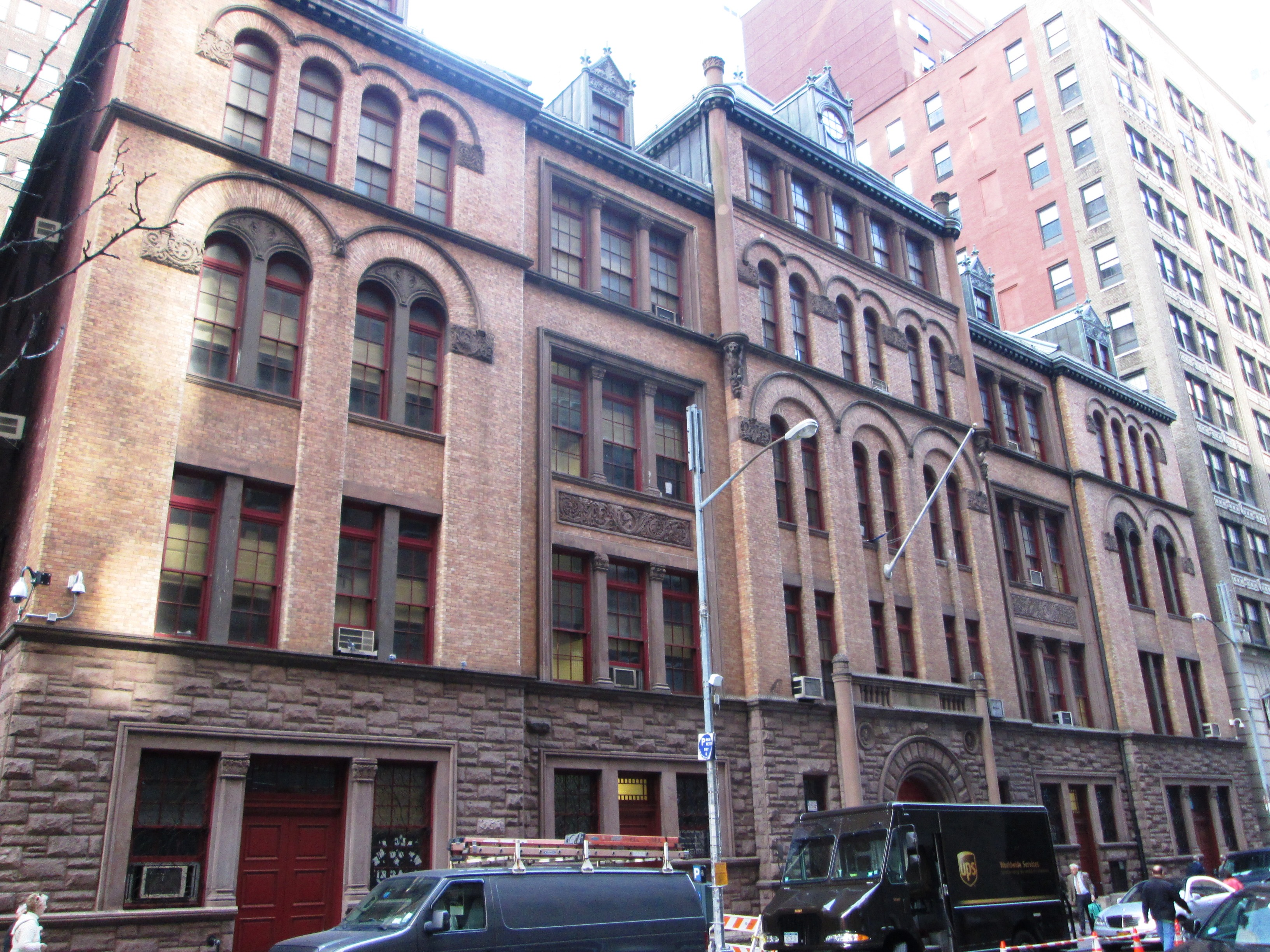 The Jacqueline Kennedy Onassis High School for International Careers at 120 West 46th Street between Sixth and Seventh Avenues in the Times Square neighborhood of Manhattan, New York City, was built in 1894.